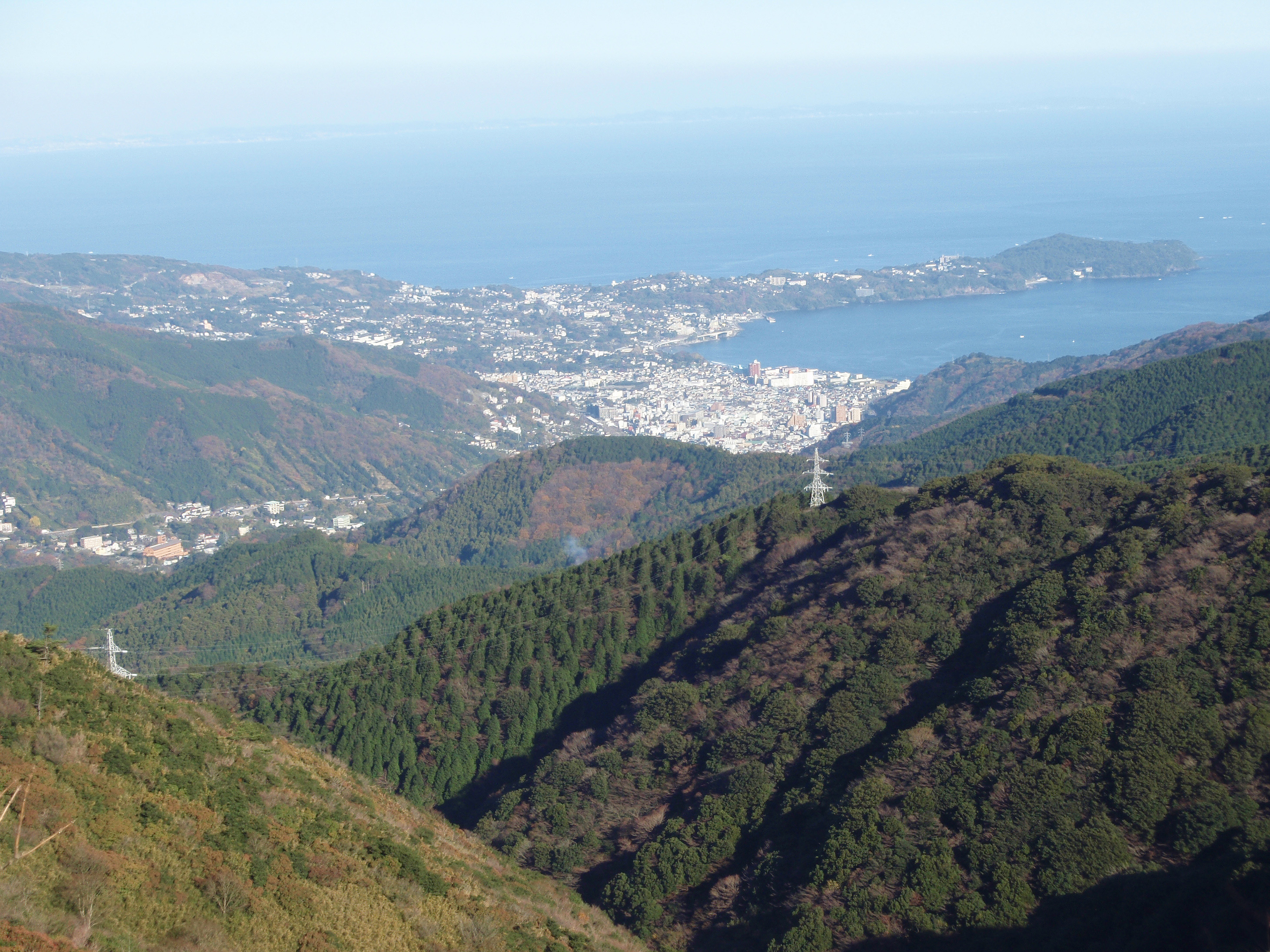 Manazuru town and Yugawara town. View from Jukkoku Pass in Shizuoka prefecture, Japan.